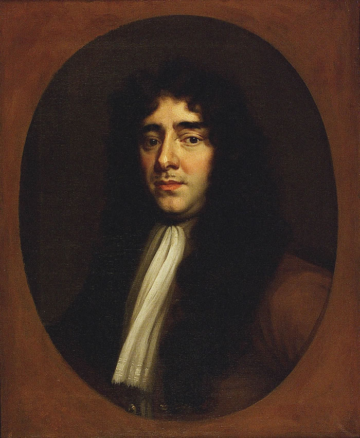 "Sir Anthony Deane, circa 1638-1721," oil on canvas, by the British artist John Greenhill. 715 mm x 575 mm. Undated. Courtesy of the National Maritime Museum, Greenwich, London.